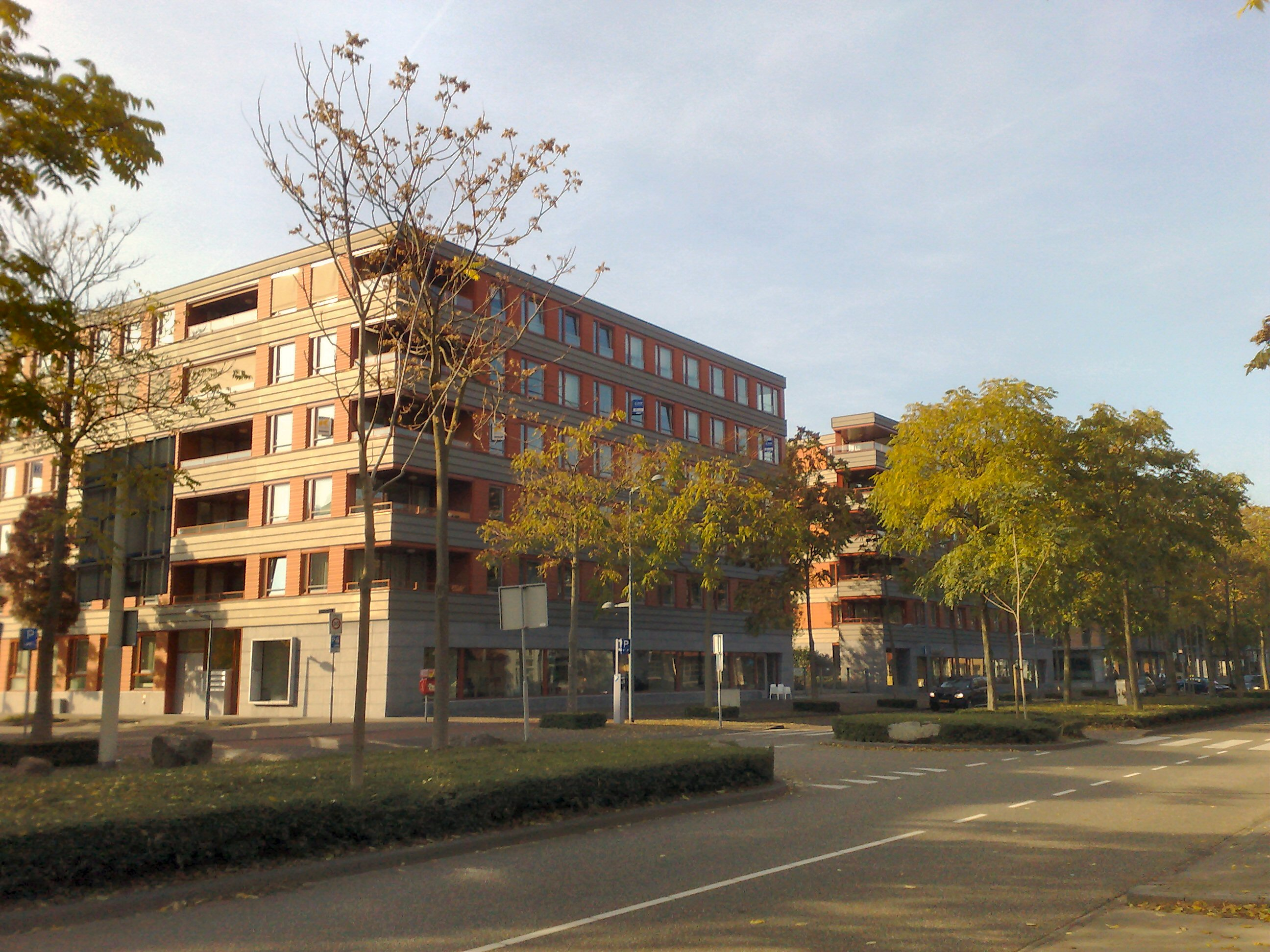 Apartment building Patio Sevilla in Maastricht, Netherlands